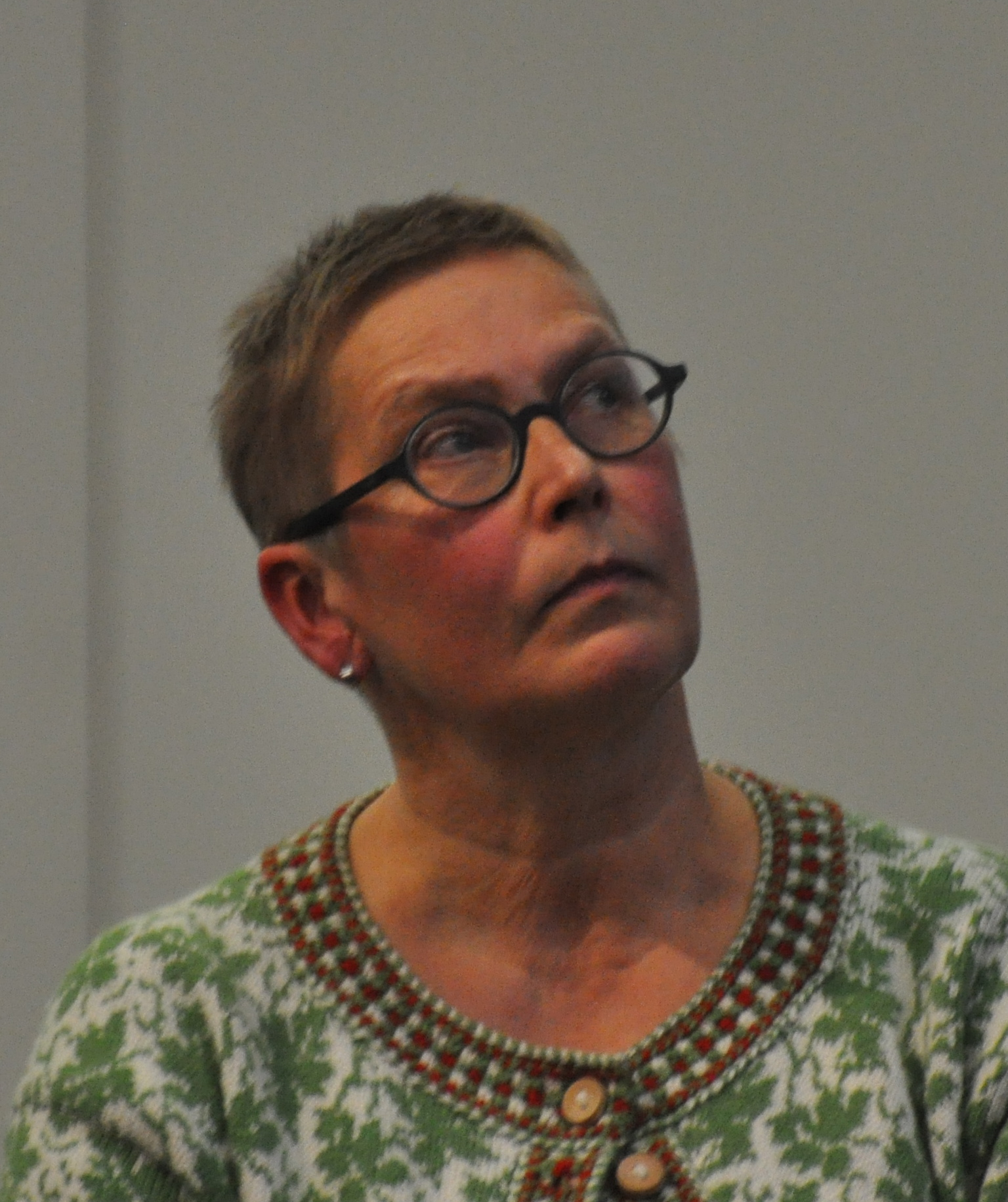 Finnish literary critic Suvi Ahola at Helsinki Book Fair, 2016.